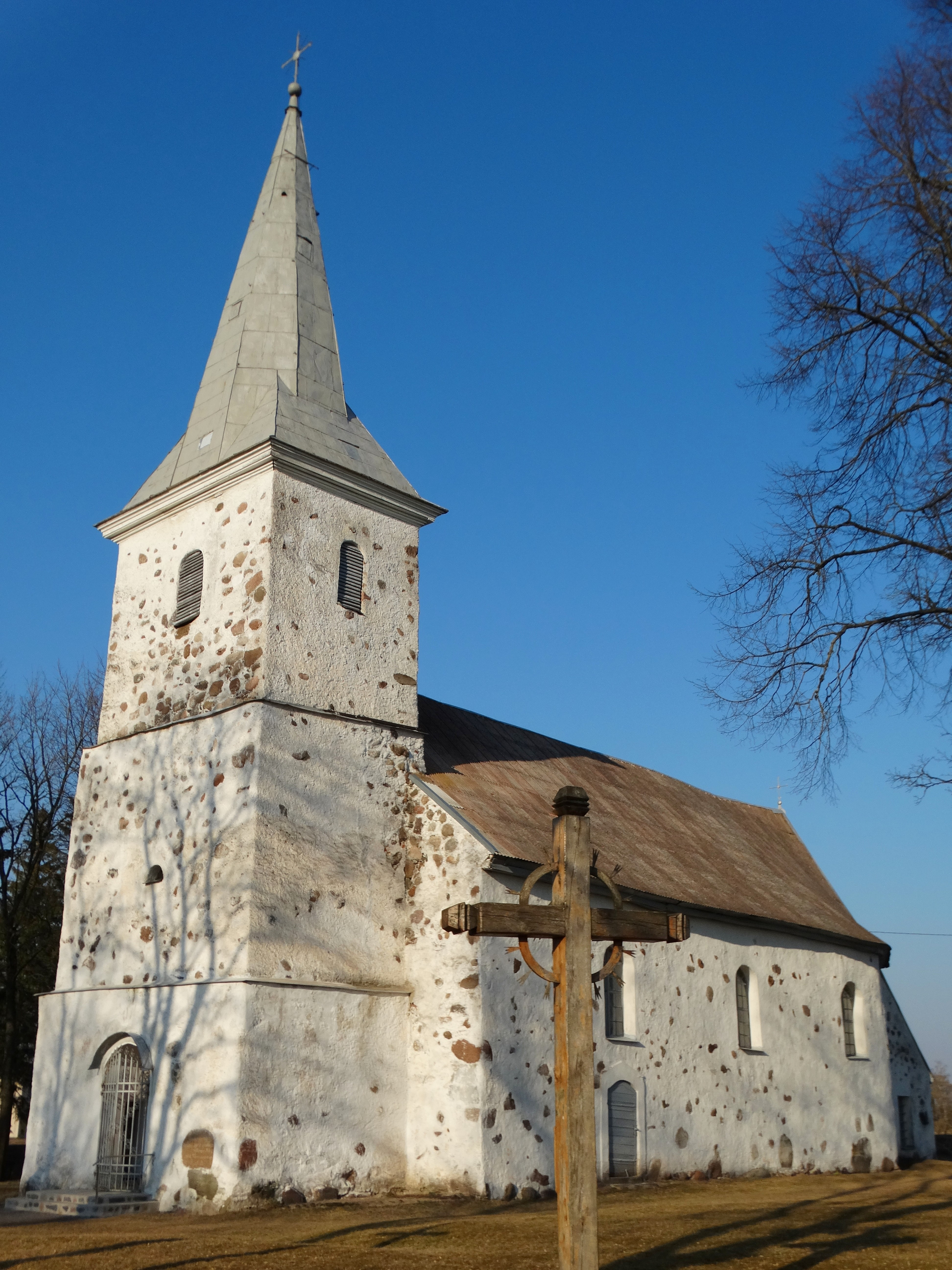 St. Michael the Archangel Church in Šakyna, Šiauliai district, Lithuania